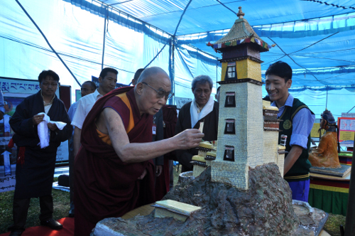 His Holiness visiting the student art centre at Gopalpur, Himachal Pradesh